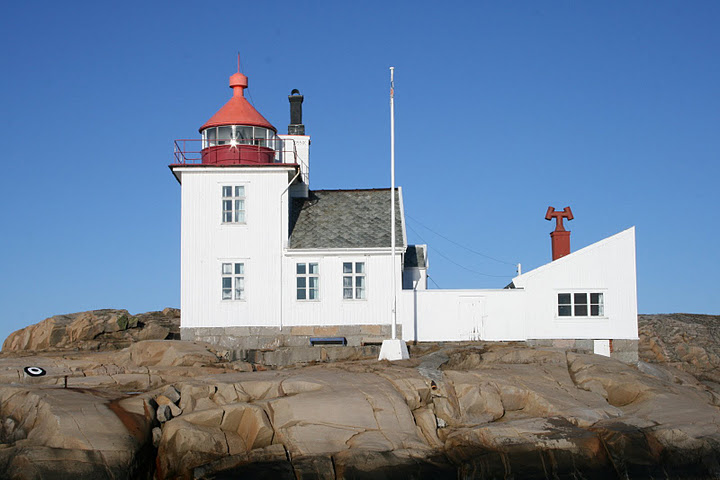 Holmlungen lighthouse in Ytre Hvaler national park